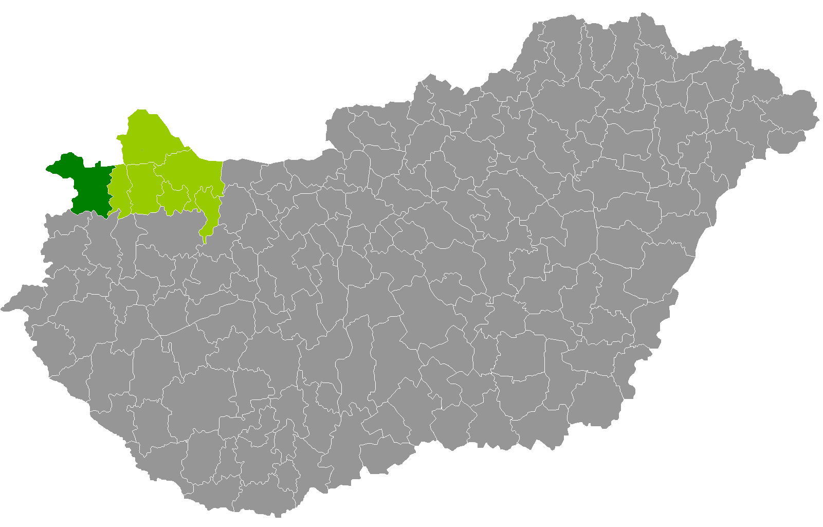 Location of Sopron District, Győr-Moson-Sopron, Hungary